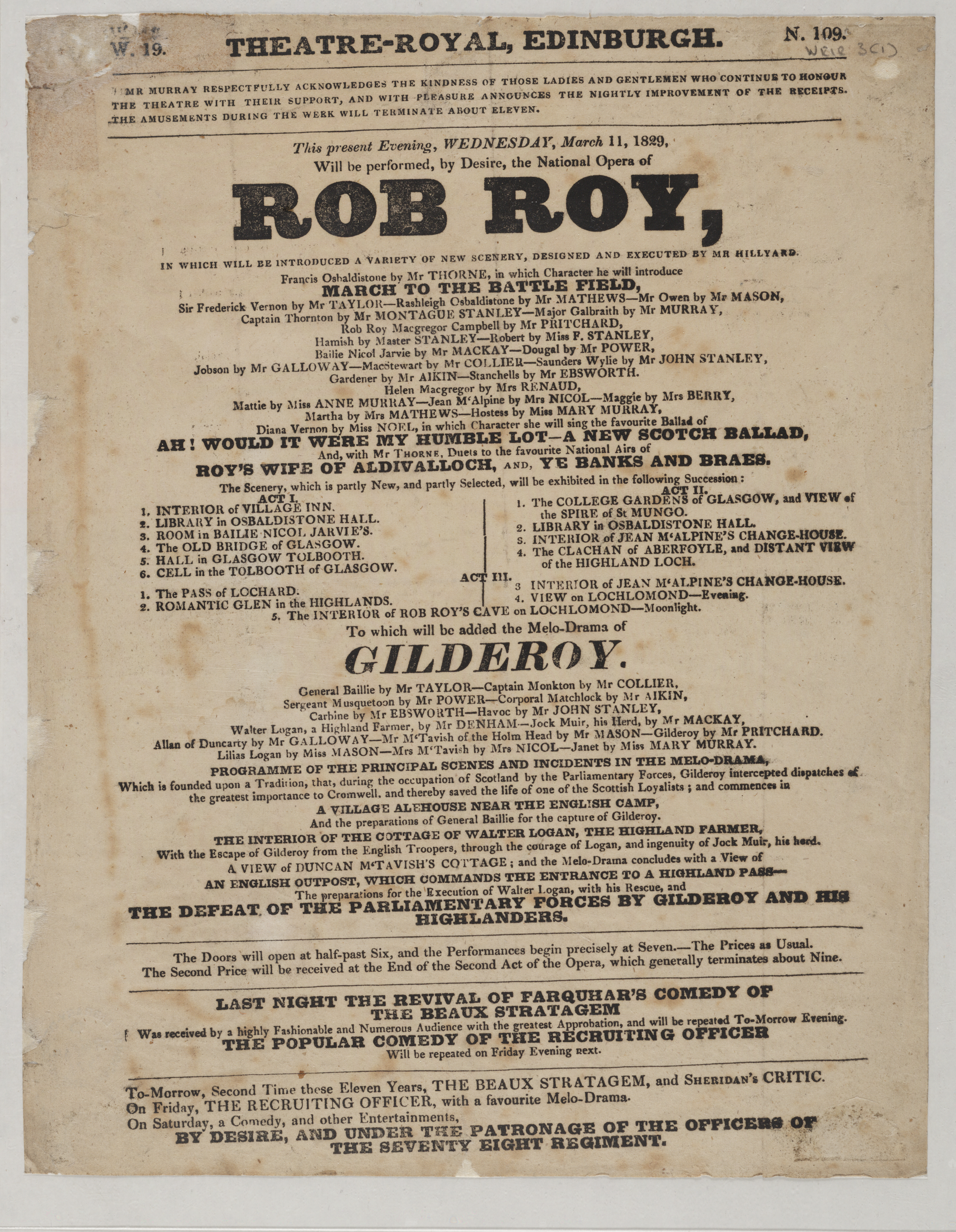 March 11, 1829. 'Rob Roy' ... to which will be added the melo-drama of 'Gilderoy'.